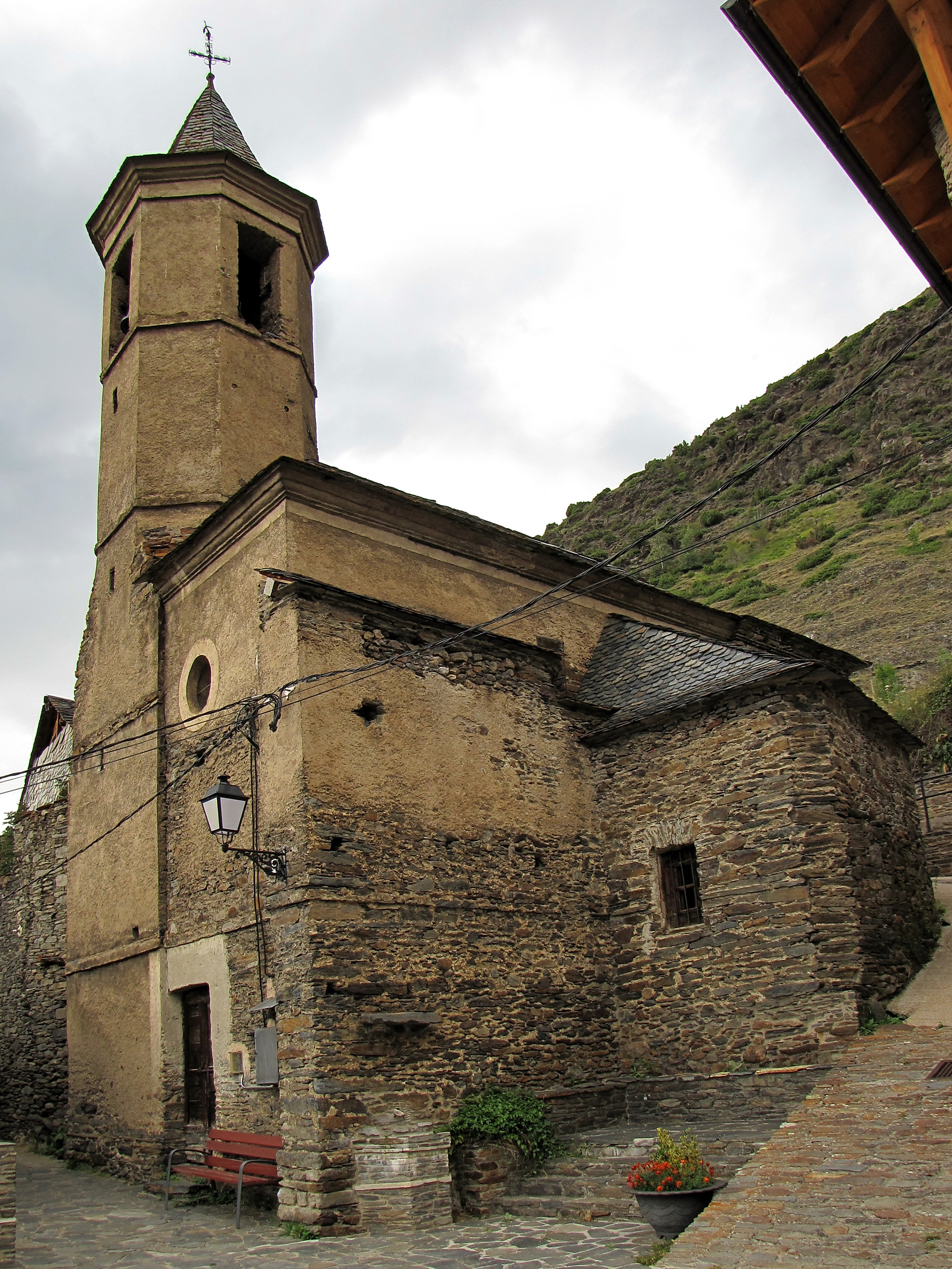 St. Fruitós Church of Boldís Sobirà in the district of Pallars Sobirà